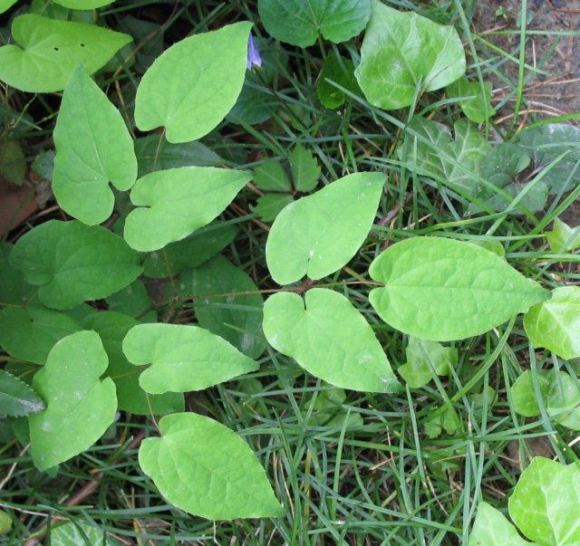 Photograph of Epimedium grandiflorum(a compound leaf).